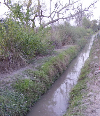 Irrigation of fields through small water channels in Pakistan